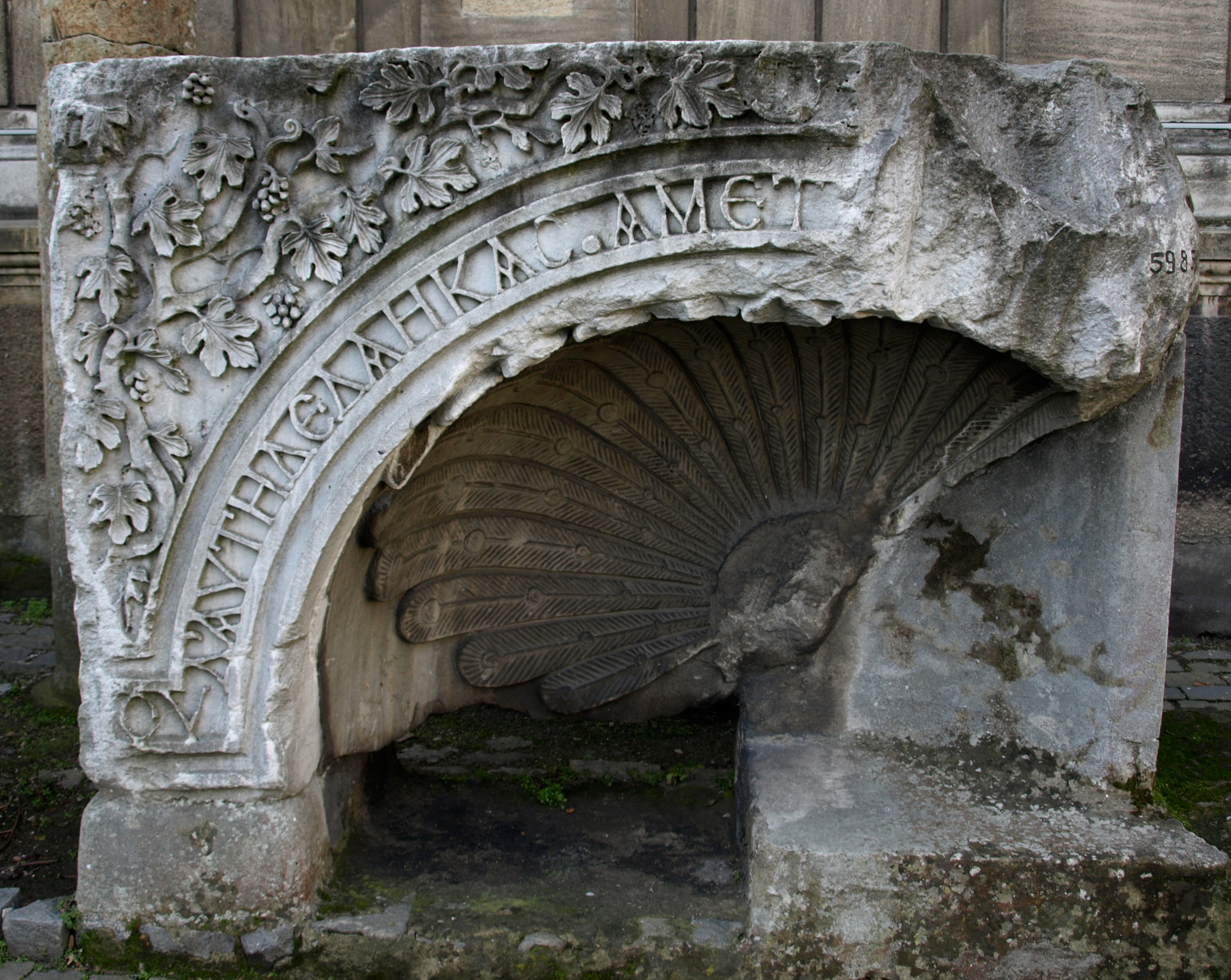 Fragment of a niche with a peacock and some line from a Greek epigram (Palatine Anthology I, 10, 31: ..οὐδ' αὐτὴ δεδάηκας· ἀμετρήτους γάρ...), from the St. Polyeuktos church in Constantinople, ca. 524-527. Istanbul Archaeological Museum. Reference : N. Firatli, La sculpture byzantine figurée au musée archéologique d'Istanbul, Paris, 1990, n°499, p. 213. (see the full poem here